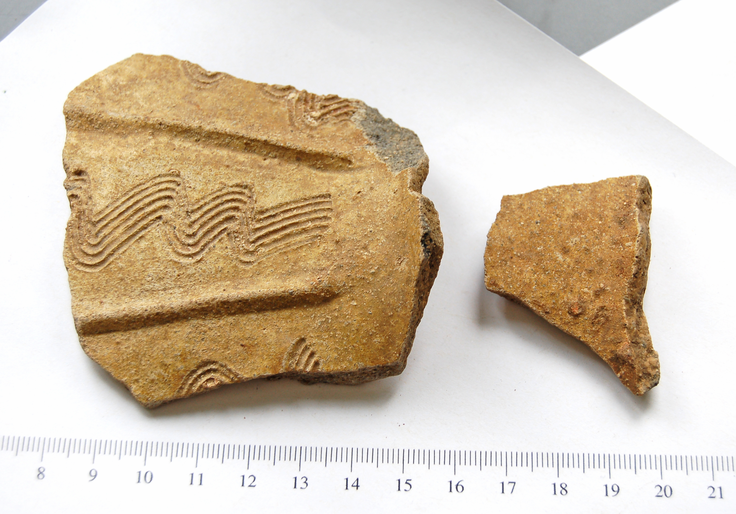 Two fragments of earthenware the largest is length 88mm, width 80mm, thickness 9mm. These are two fragments of Ham Green ware this has a buff outer surface and a grey core, there are limestone and quartz inclusions. That largest piece would be from the top of a jug, there are vertical ridges with zigzag comb decoration in between, the outside has a green glaze. Date 1150-1300.